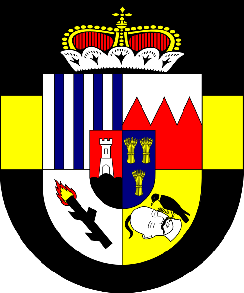 Coat of arms (shield only) of Friedrich Joseph Johann Cölestin cardinal von Schwarzenberg, archbishop of Salzburg, Austria (1835 - 1850), archbishop of Prague (1850 - 1885). Coat of arms used in Prague.